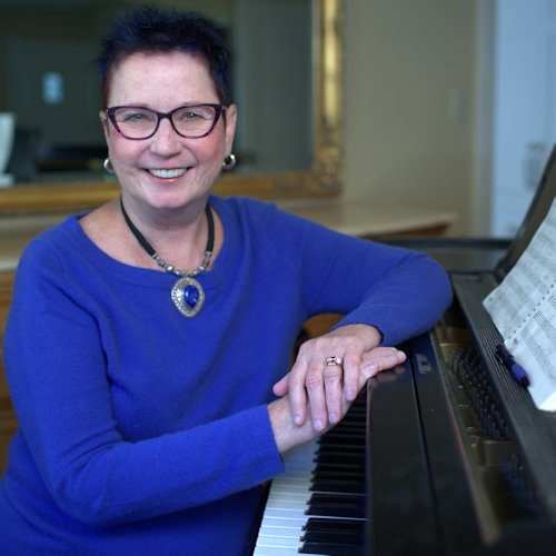 Publicity photo of Mona Lyn Reese by Thomas Hassing.